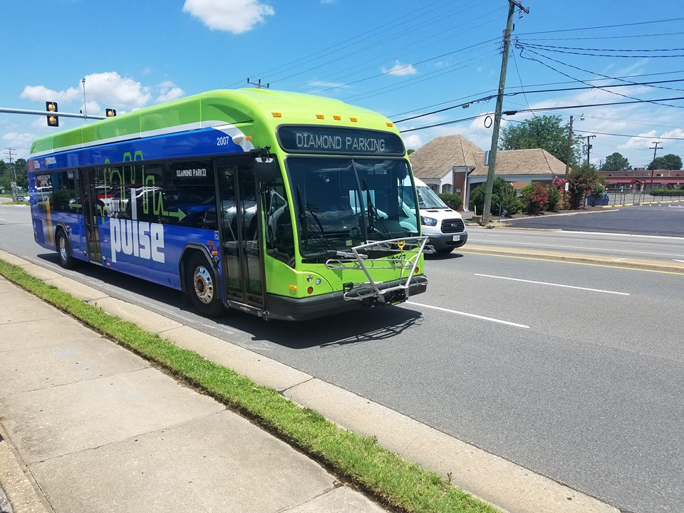 GRTC Pulse near Willow Lawn on opening day.